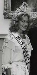 Shawn Weatherly, Ronald Reagan and Kim Seelbrede (out of file) in 1981 in Oval Office